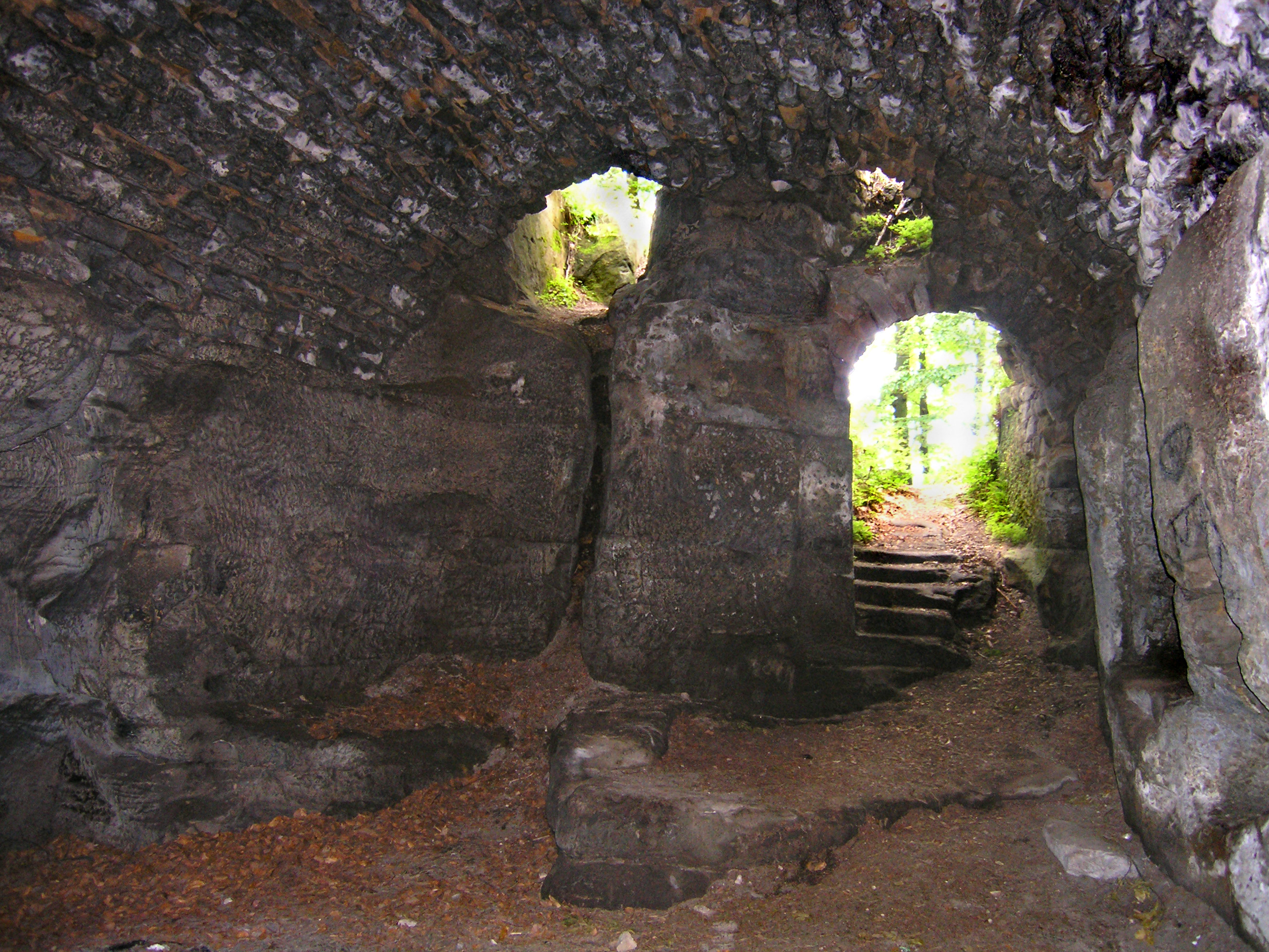 The basement of Zbirohy castle in Koberovy village, Czech Republic